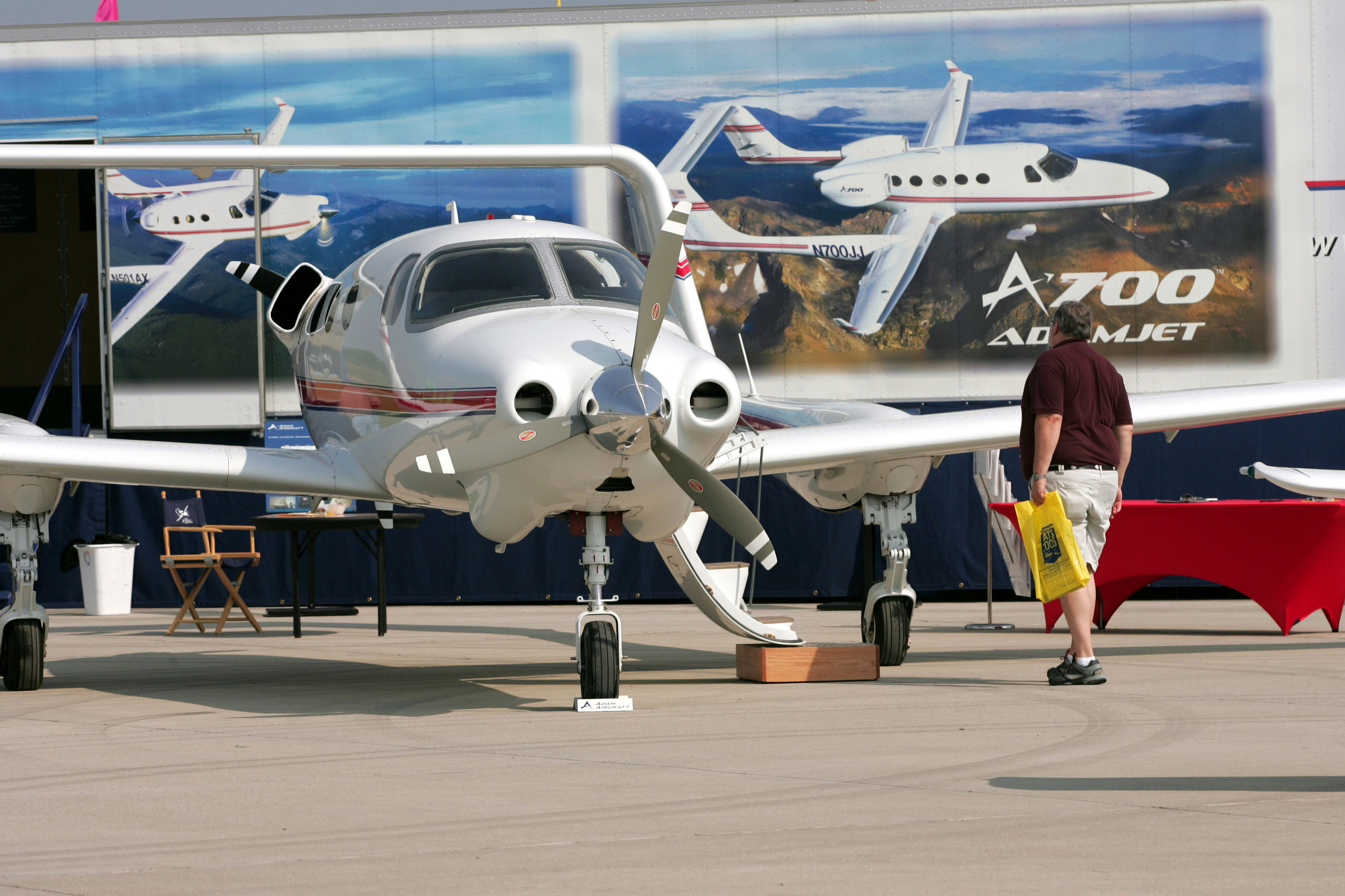 Michael Jones checks out the A500 twin-piston aircraft from Adam Aircraft as it sits on display during the SATS 2005: Transformation of Air Travel technology demonstration in Danville, Va., June 6, 2005. Visitors enjoyed a glimpse of the possible future of personalized air travel by small plane in the form of simulators and live demonstrations.